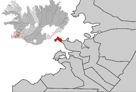 Where Seltjarnarnes is placed